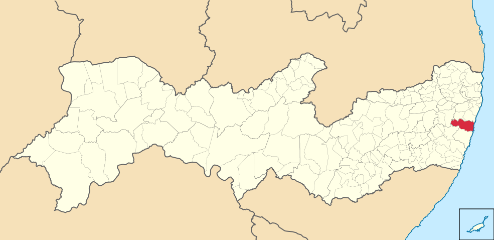 Mapa do Cabo de Santo Agostinho (2)